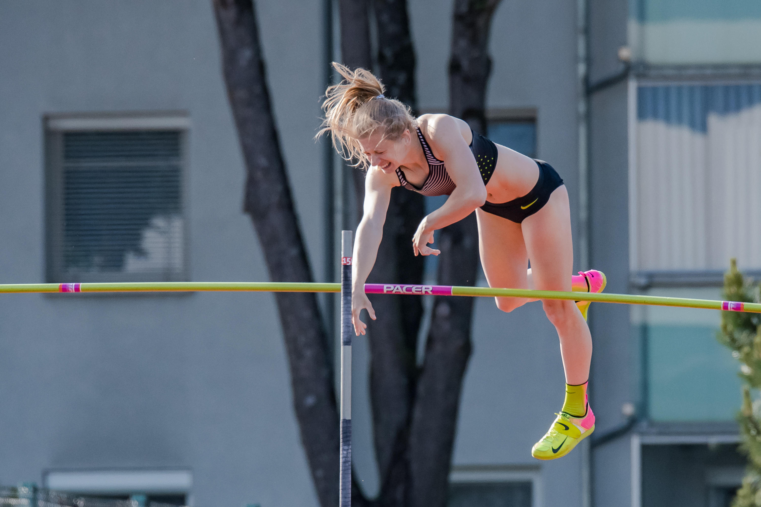 Leichtathletikgala Linz 2017 - Pole vault - Tina Sutej